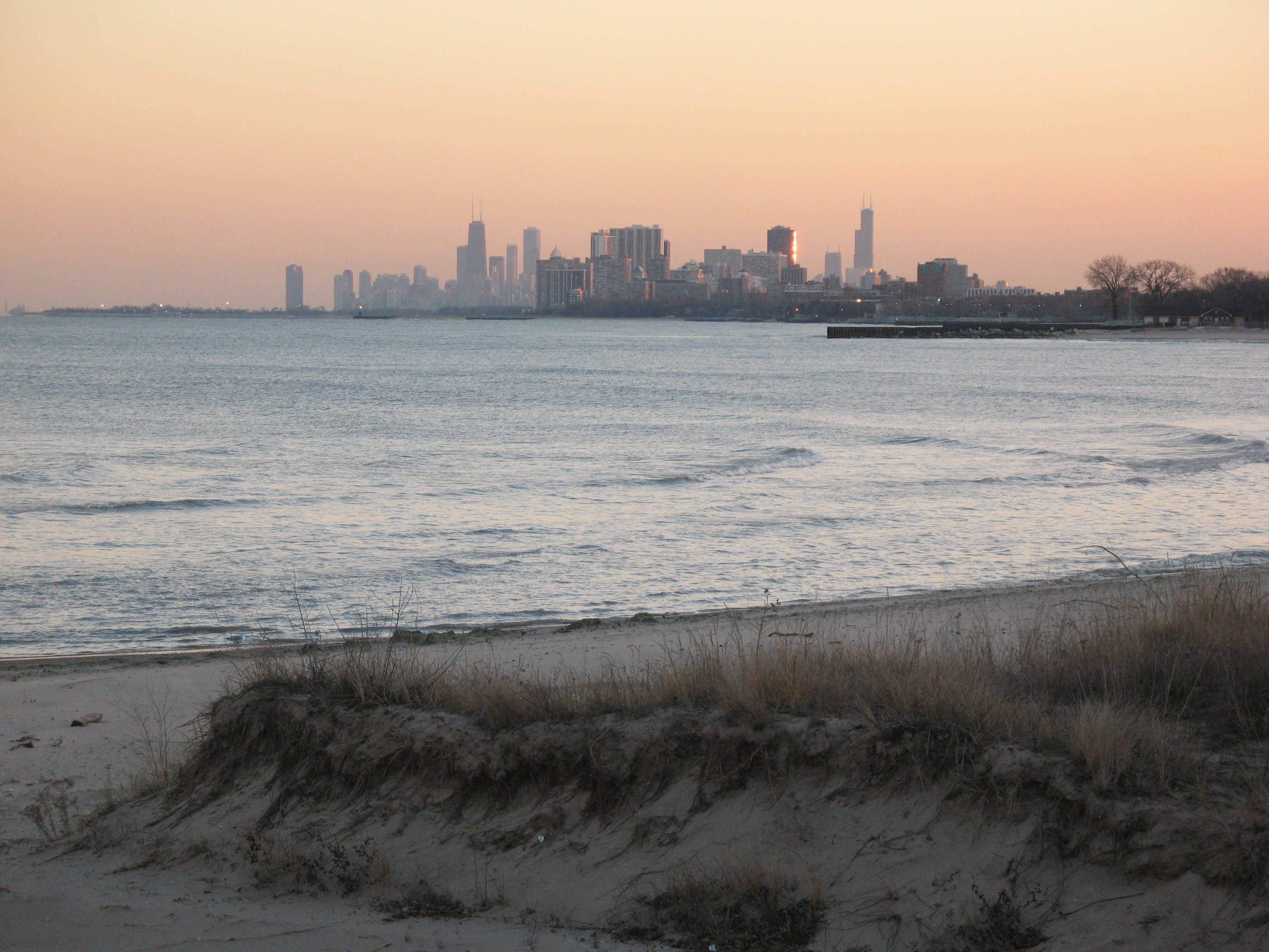 Lake Michigan and the skyline of Chicago, Illinois as viewed from Northwestern University's campus in Evanston, Illinois.